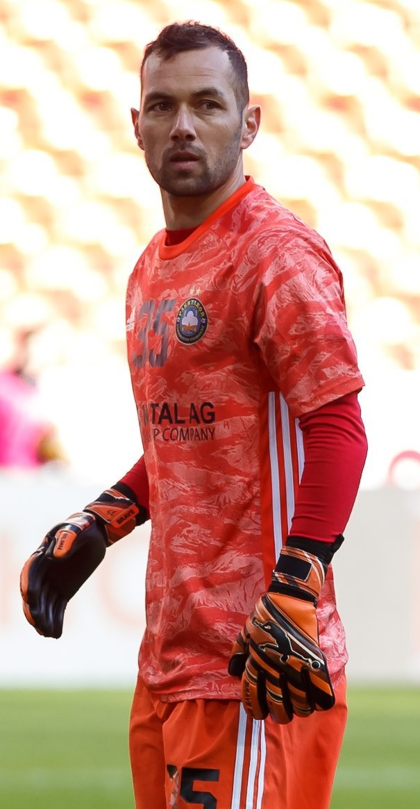 Sanjar Kuvvatov with Pakhtakor Tashkent in a friendly game against FC Spartak Moscow.